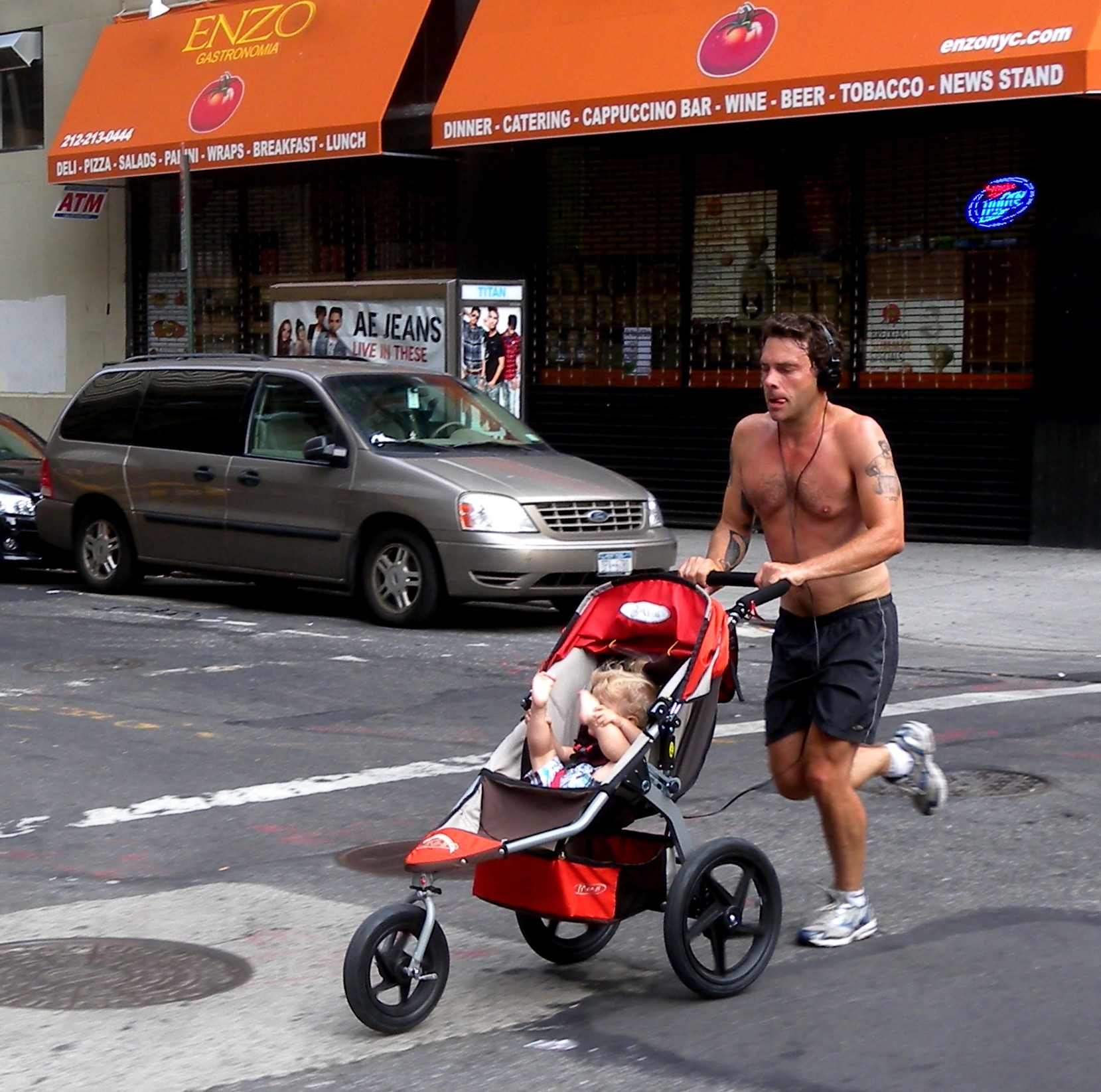 Looking north across East 20th St as jogger pushes baby in tricycle jogging stroller on a sunny morning.